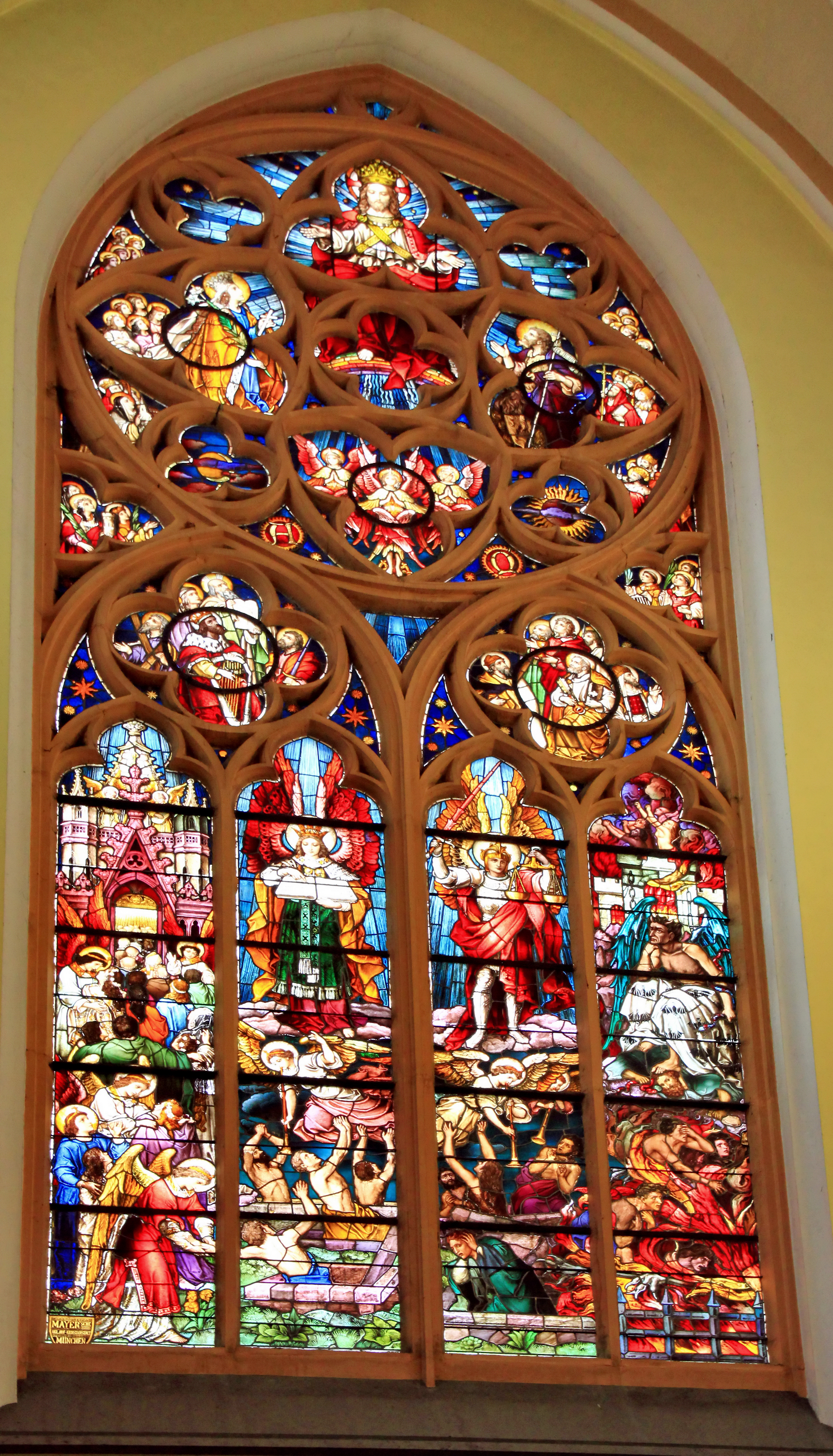 Racibórz, Church of John the Baptist, build in 1836